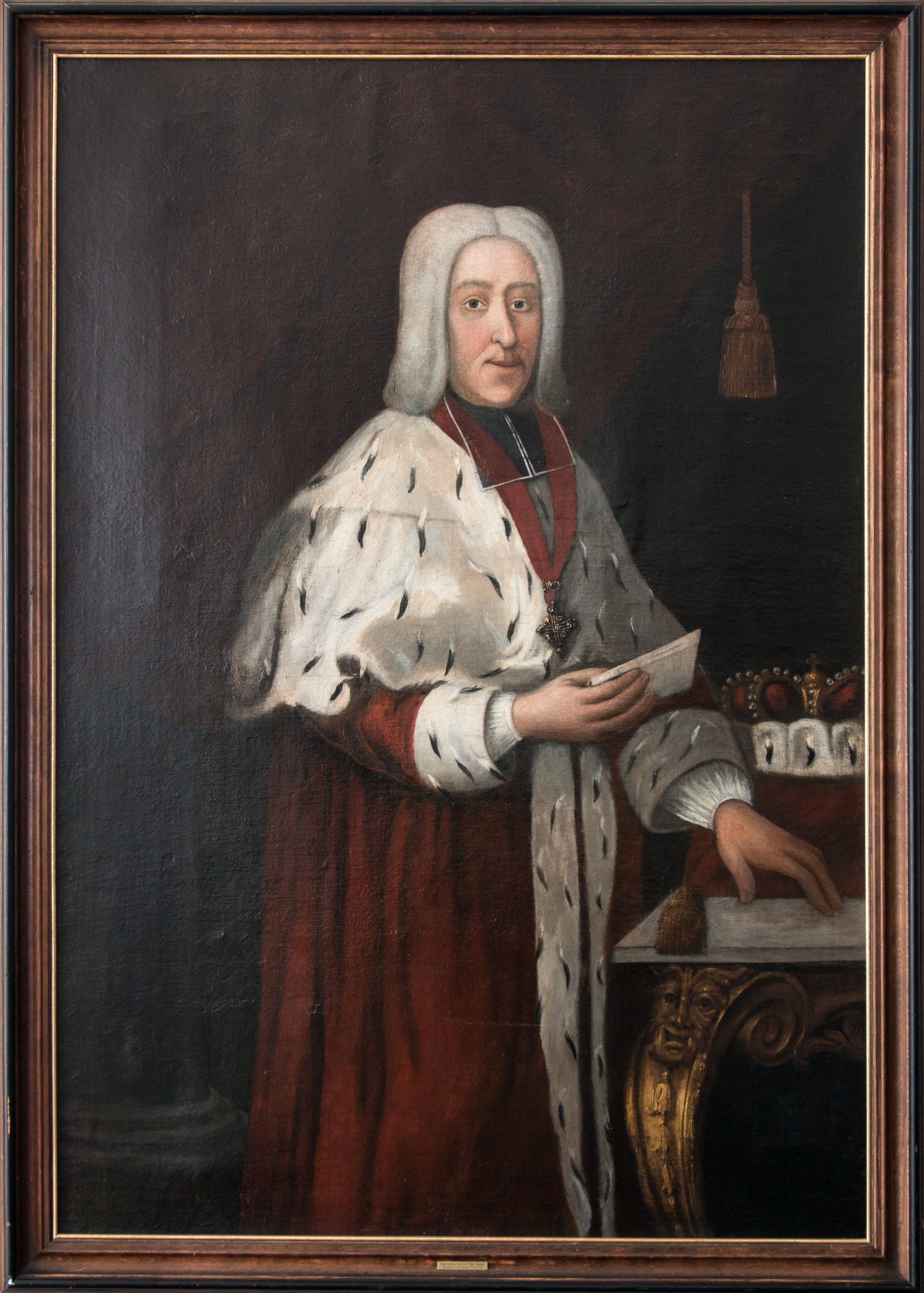 Portrait of Count Palatine Francis Louis of Neuburg in the Landtag of Rhineland-Palatinate